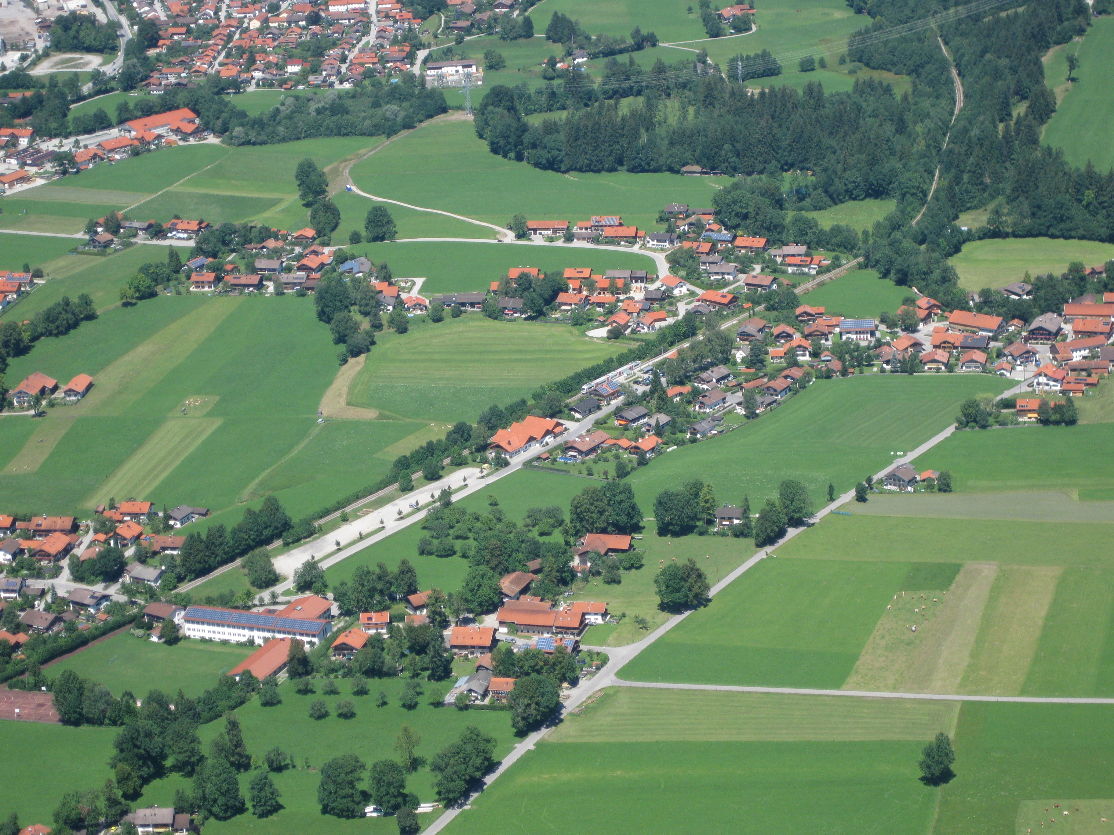 aerial photography of Gaissach (boroughs Mühl and Wetzl) near Bad Tölz (Gemrnay/Bavaria)